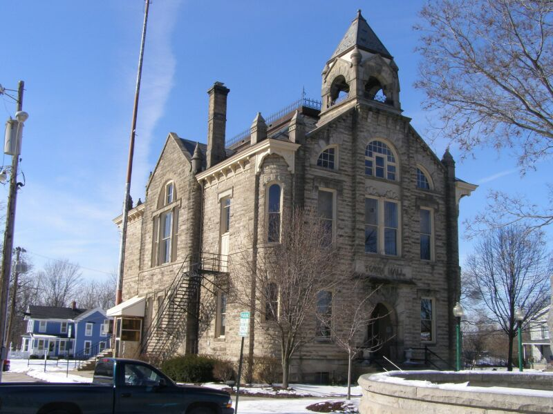 Amherst, Ohio, Town Hall, National Register of Historic Places